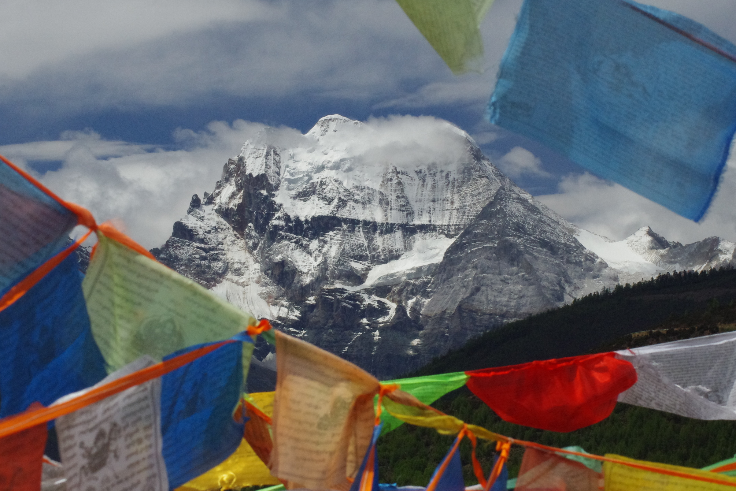 Sacred mountain Xiannairi, Yadin UNESCO-MAB Biosphere Reserve, Yading Nature Reserve